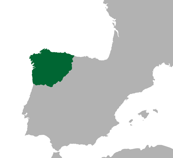 This map shows the Gallaecia´s territory in the Roman Empire.